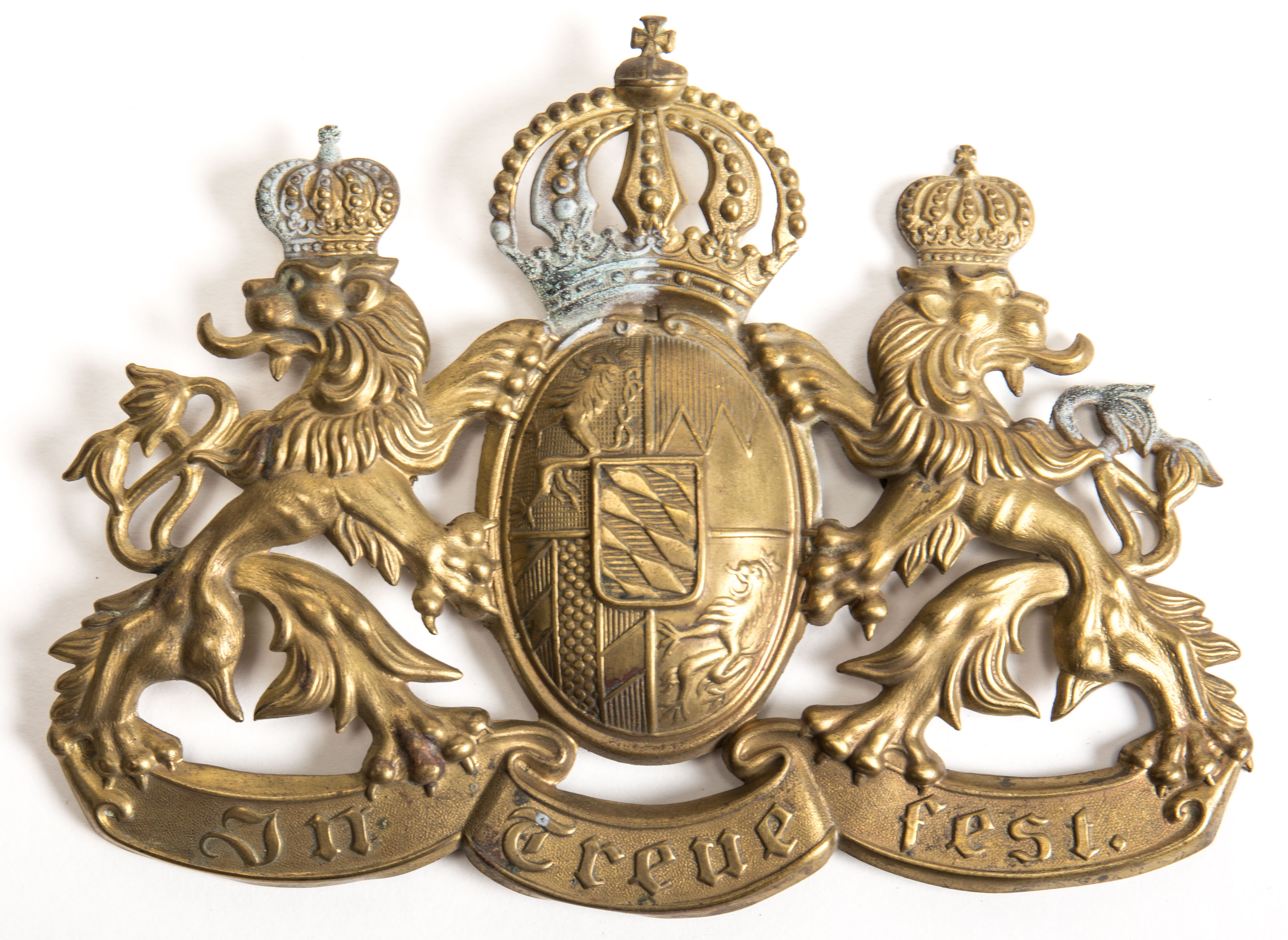 German Bavarian helmet plate, WW1 period white metal; oval shield with crown above and crowned lion supporters; base scroll with motto- 'In Treue Fest."; screw fastenings verso Bavarian motto- In Treue Fest (True in Fidelity)